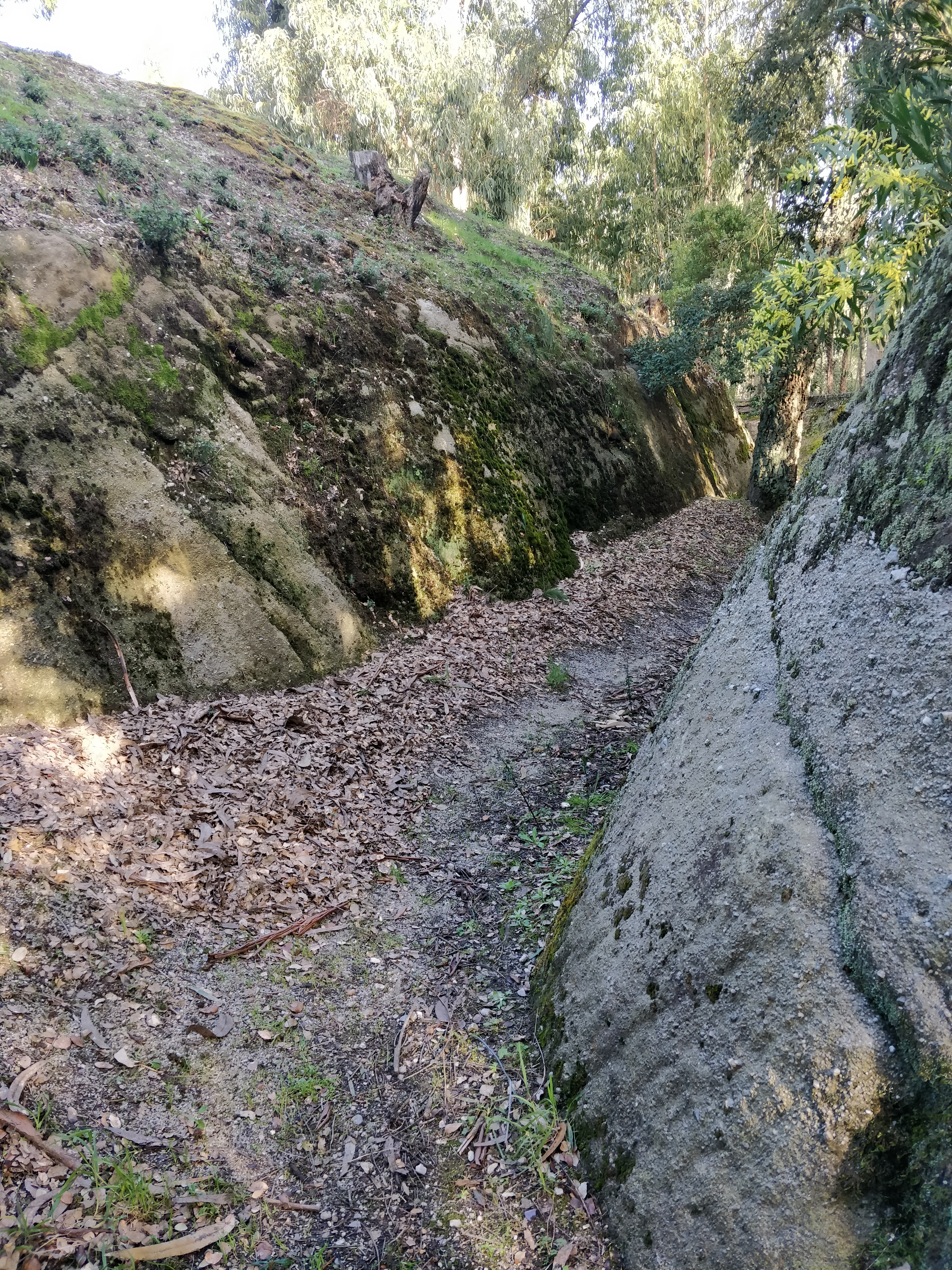 View of the moat around Fort of Feira in Malveira, Lisbon District, Portugal